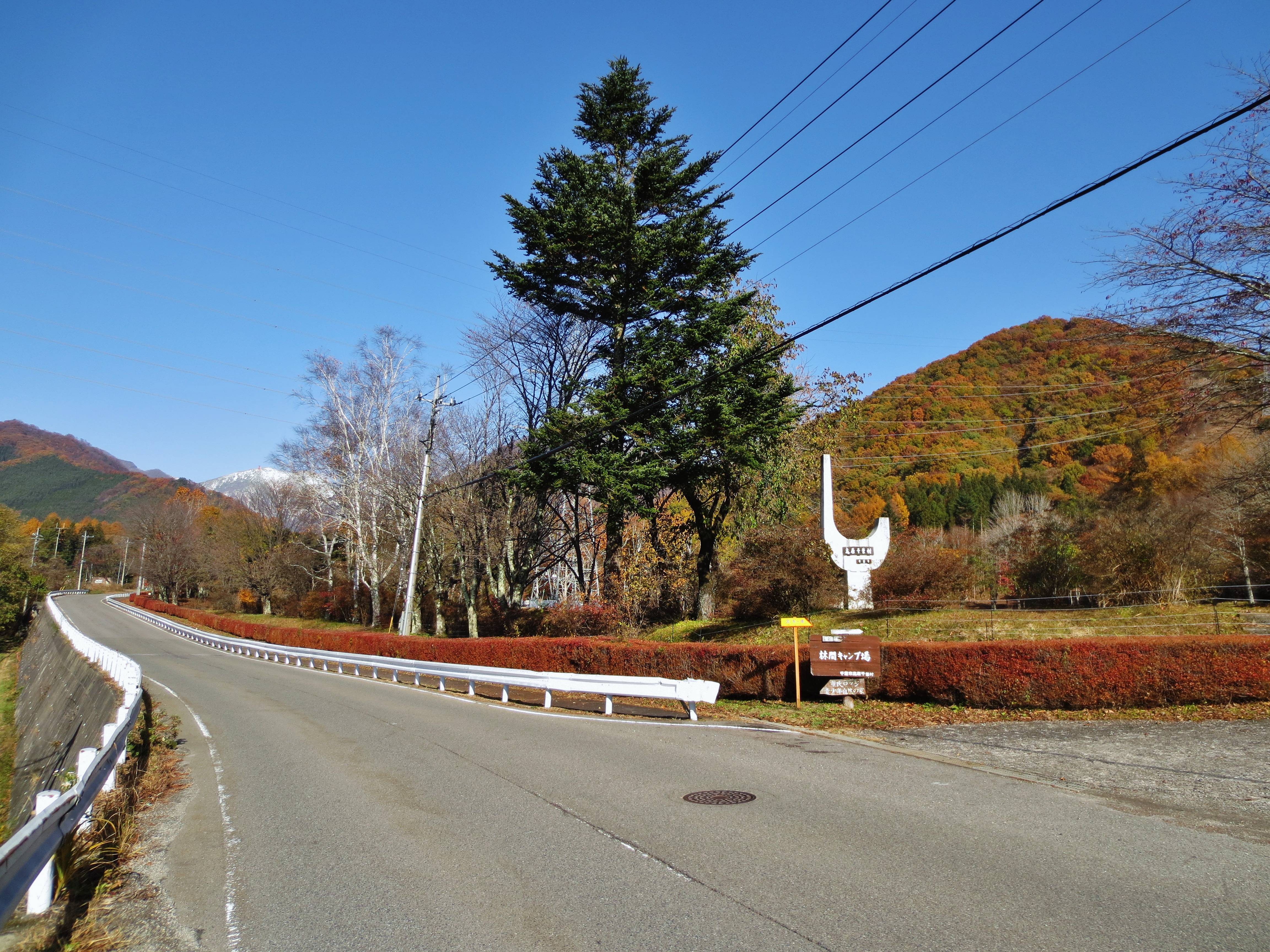 Kōgen Chibamura.